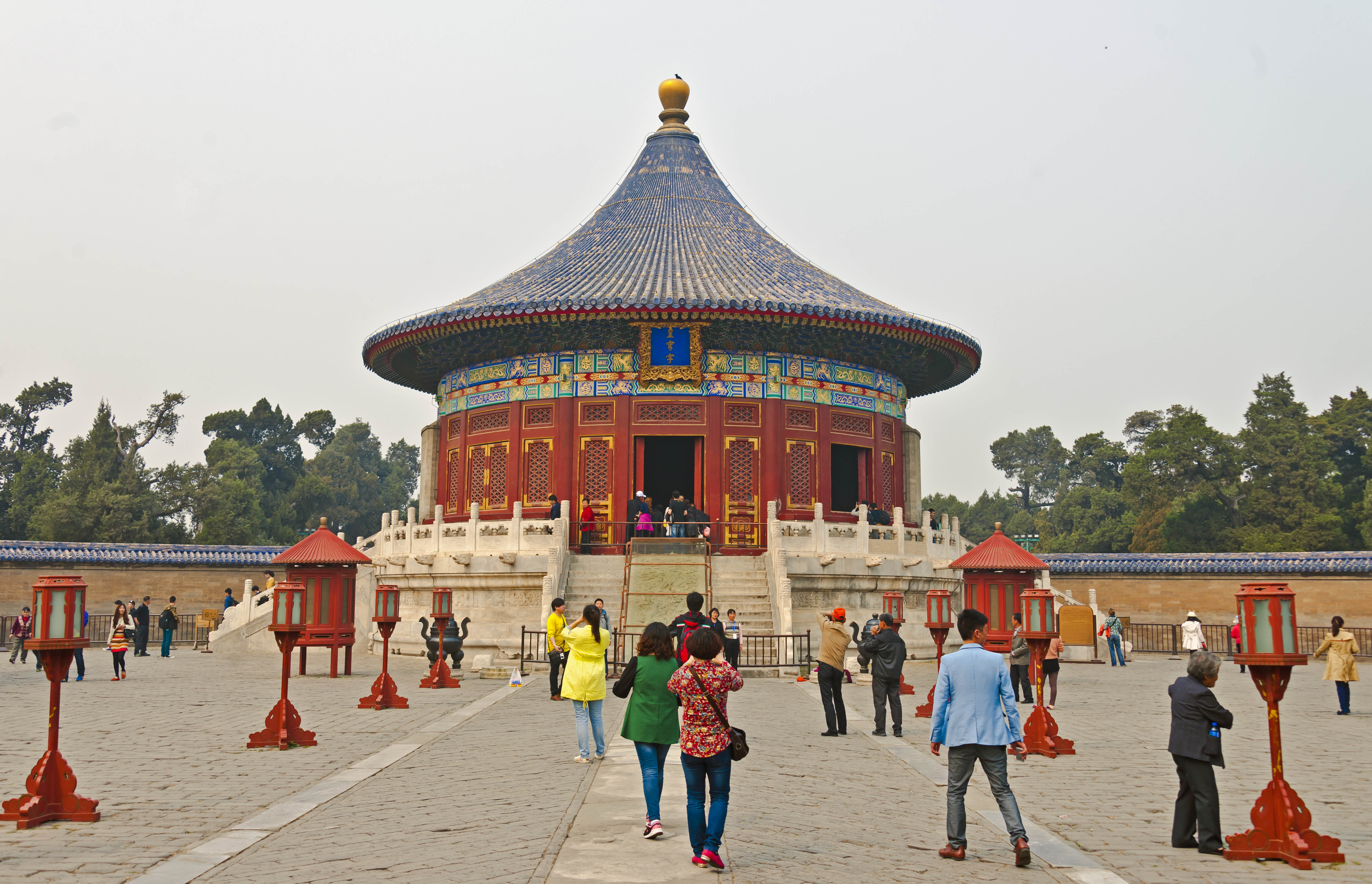 The Imperial Vault of Heaven at the Temple of Heaven, Beijing, from the south.